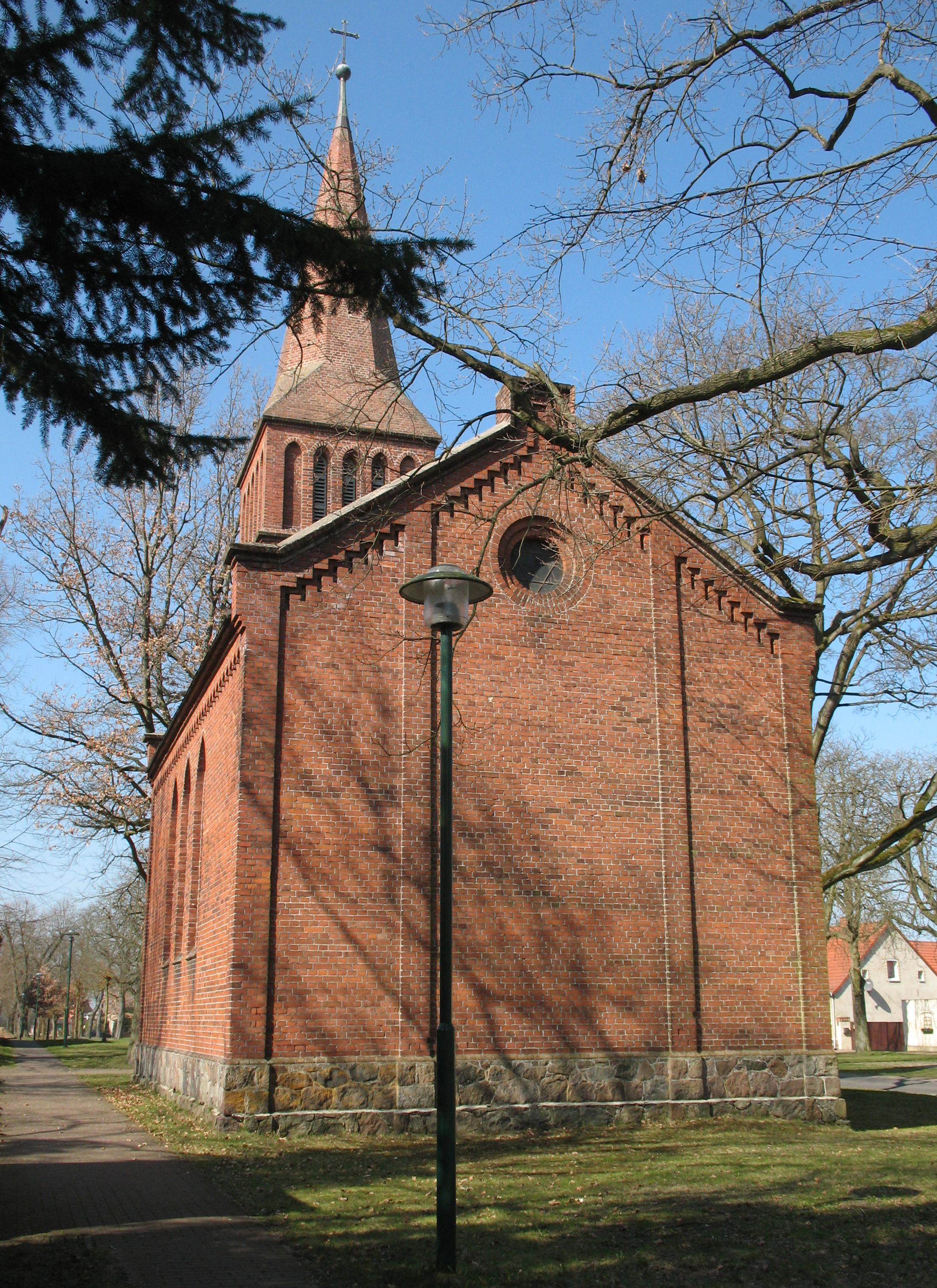 Church in Vielitzsee-Seebeck in Brandenburg, Germany